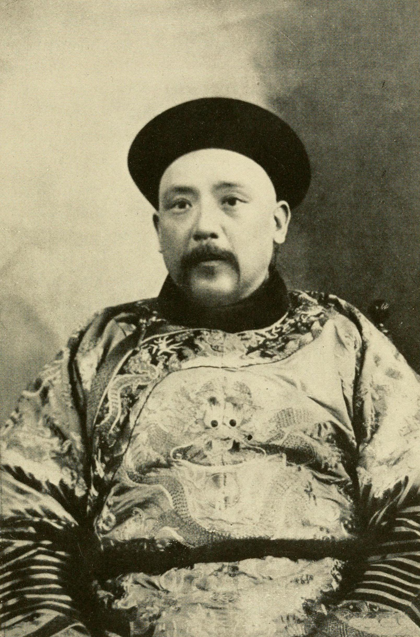 General Yuan Shikai